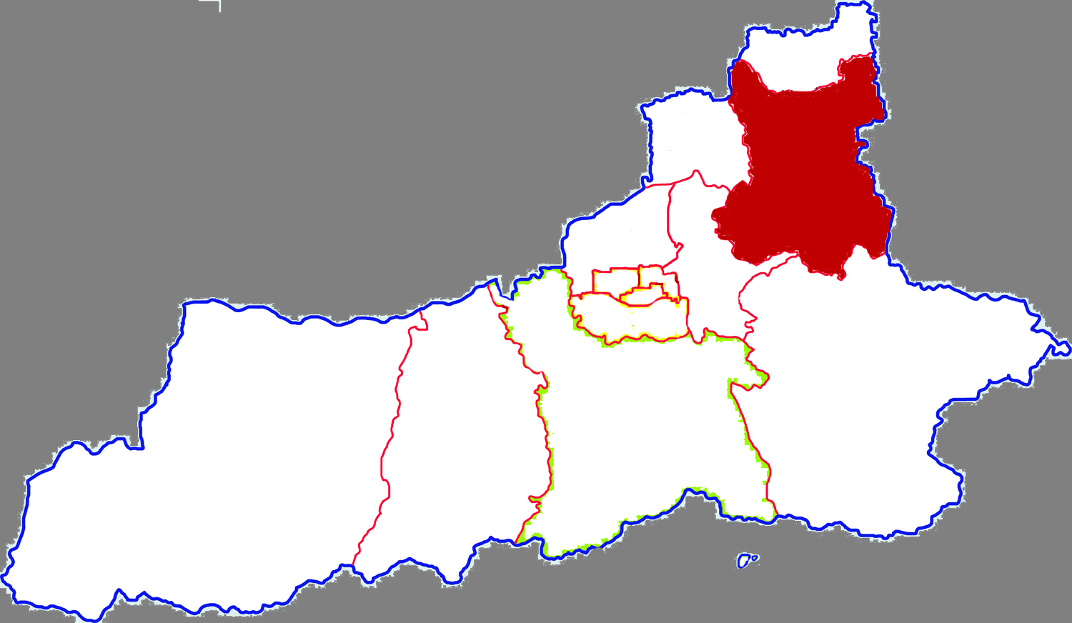 Location of Lintong district in Xi'an city, China